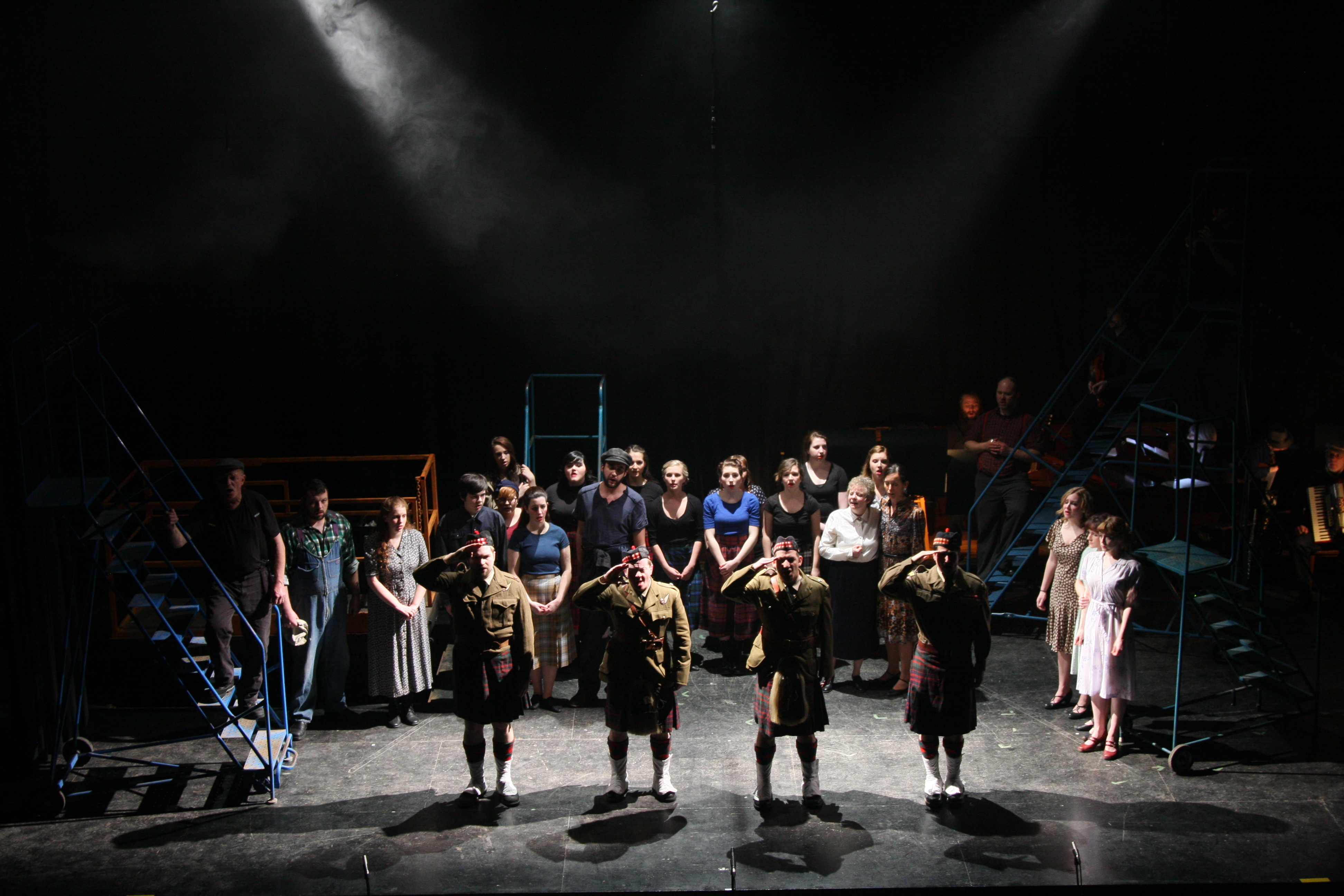 HEART OF STEEL a new musical by Wesley J. Colford, a production of the Highland Arts Theatre, Sydney, Nova Scotia, Canada. For 50 years, the Sydney Steel Plant produced the finest steel in the world. But when War breaks out and the men are gone overseas, what will happen when women take change of the workplace for the first time? The year is 1943. The Sydney Steel Plant is in full swing, providing half of Canada's steel for the war efforts, but WW2 is far from over. The boys are overseas, and it's up to Cape Breton's female force to hold the fort! A lovable cast of outrageous characters that will put a smile on your face and a tune in your heart. Featuring an original score that mixes traditional East Coast folk with '40's swing and boogie woogie, a new Cape Breton Musical Comedy - based on historical events.